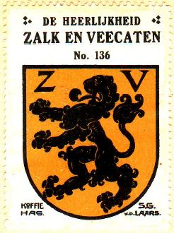 Coat of arms of Zalk en Veecaten (estate) (Netherlands)